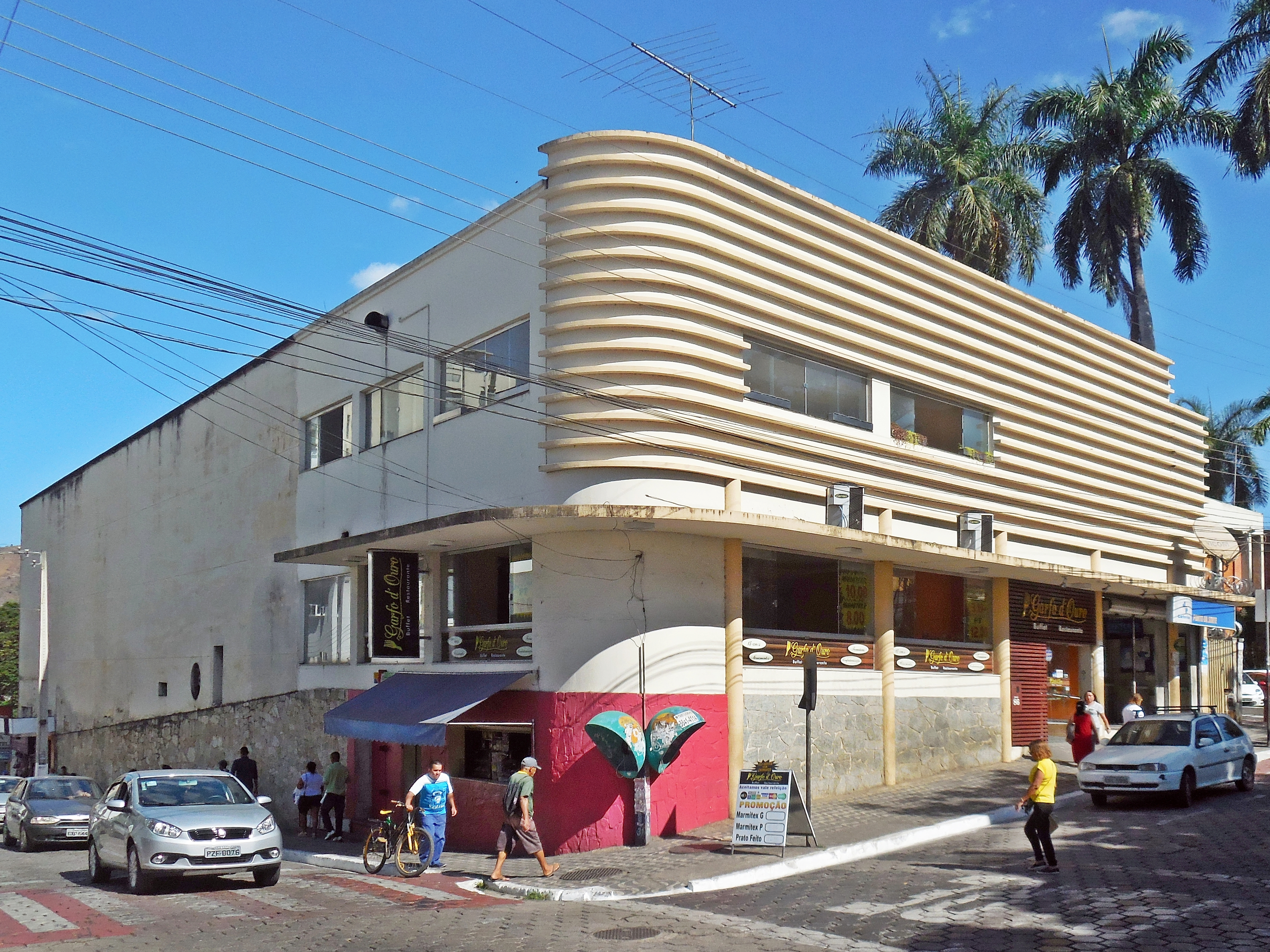 Structure of the Cine Marrocos, a cinema inaugurated in 1963 and deactivated in the 1980s in Coronel Fabriciano, Minas Gerais, Brazil.